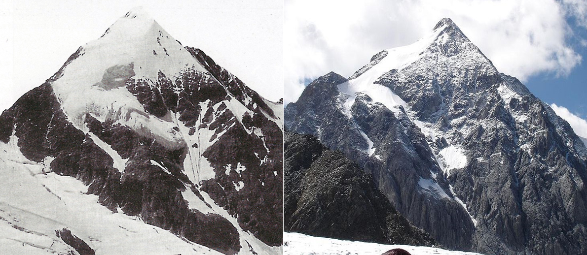 Königspitze from SE, ca. 1917